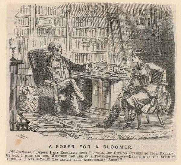 Satirical cartoon about the Bloomerism movement. Girl in bloomers seeking consent to marry from her fiance's father. Cutting from newspaper/magazine. Shelfmark: Fashion 19 (56) (subsection: Satire and reform movements: Bloomers and Bloomerism)